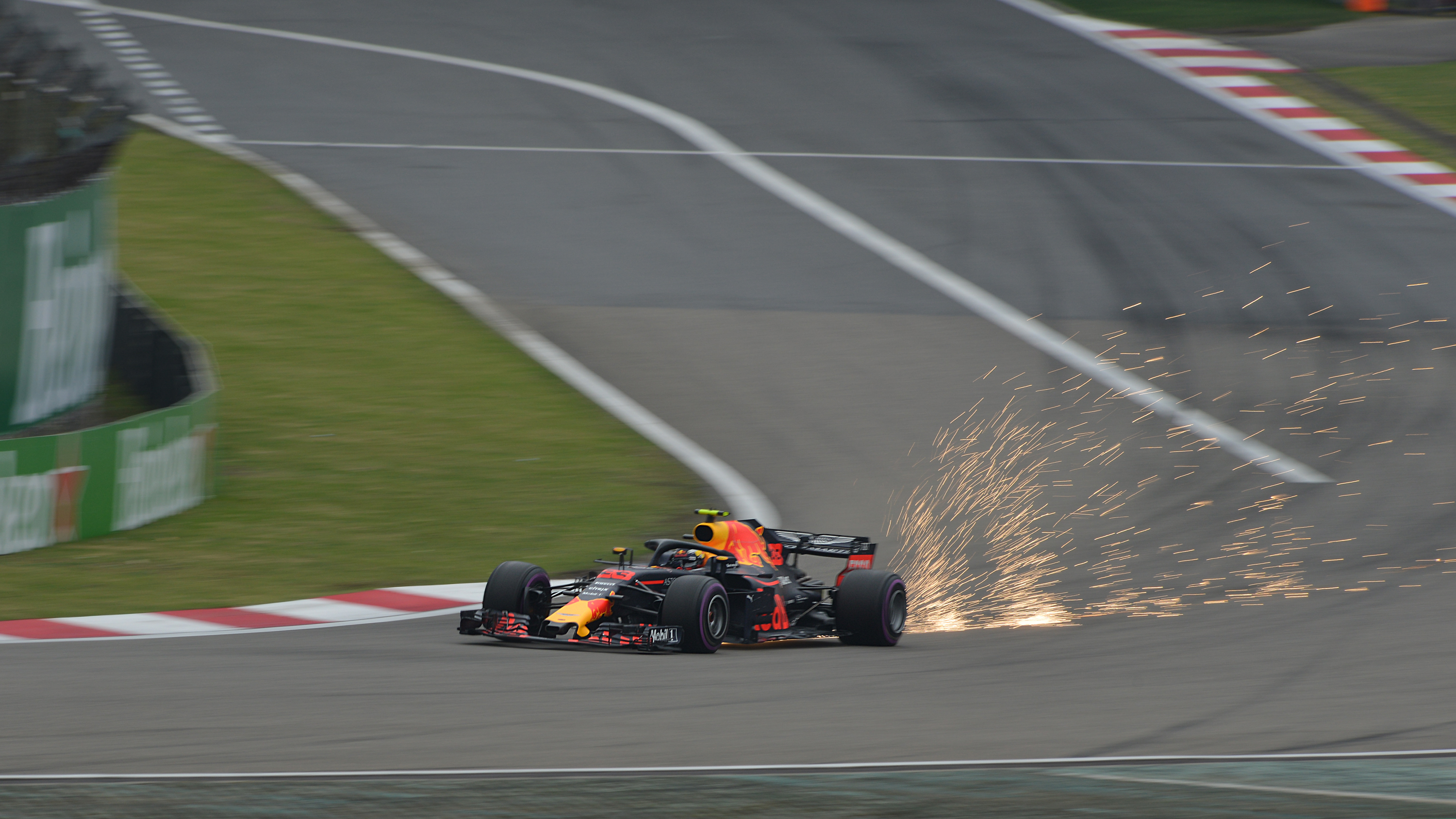 Red Bull Racing TAG Heuer